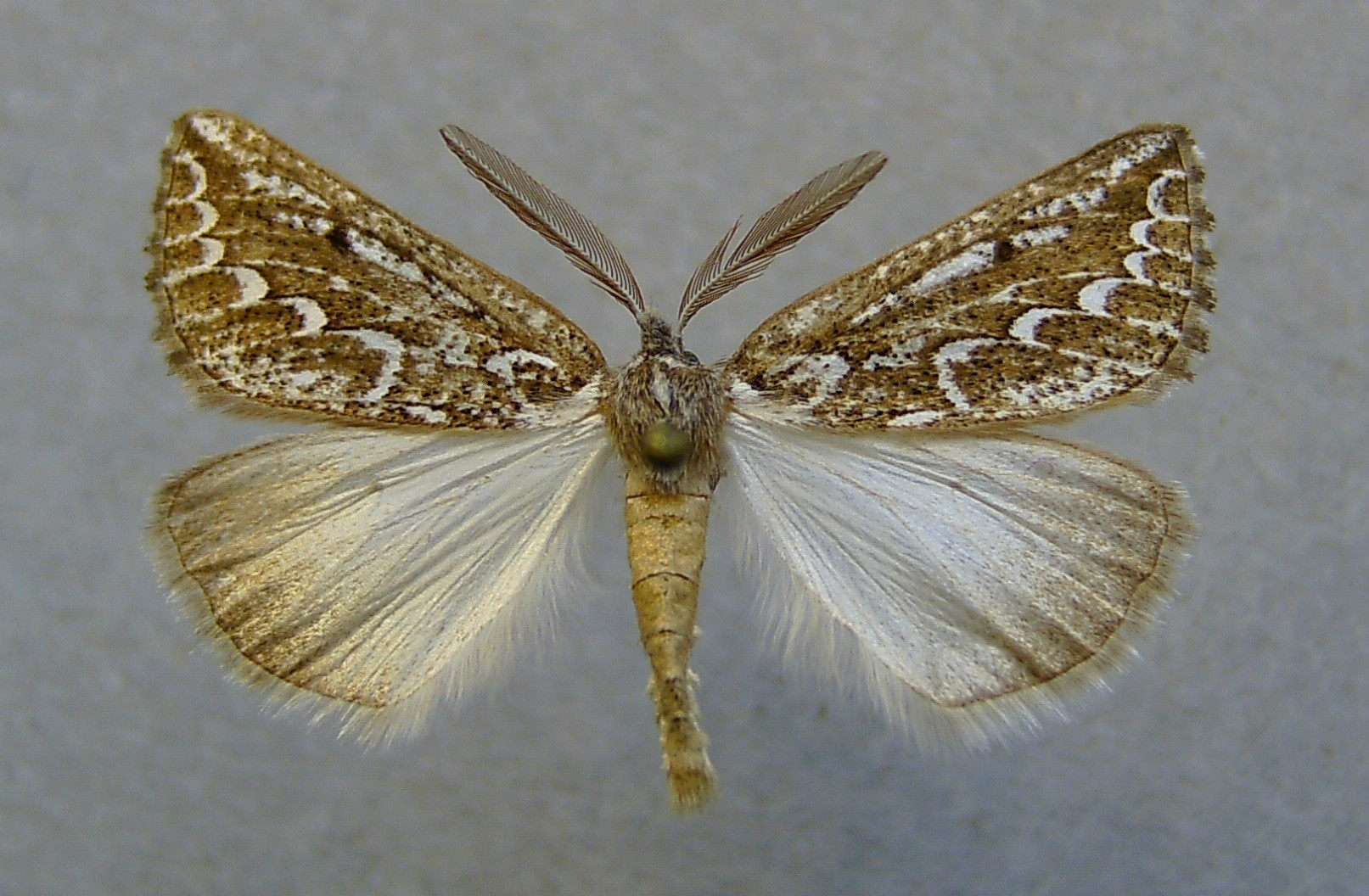 Compsoptera jourdanaria, male, Granada, Spain